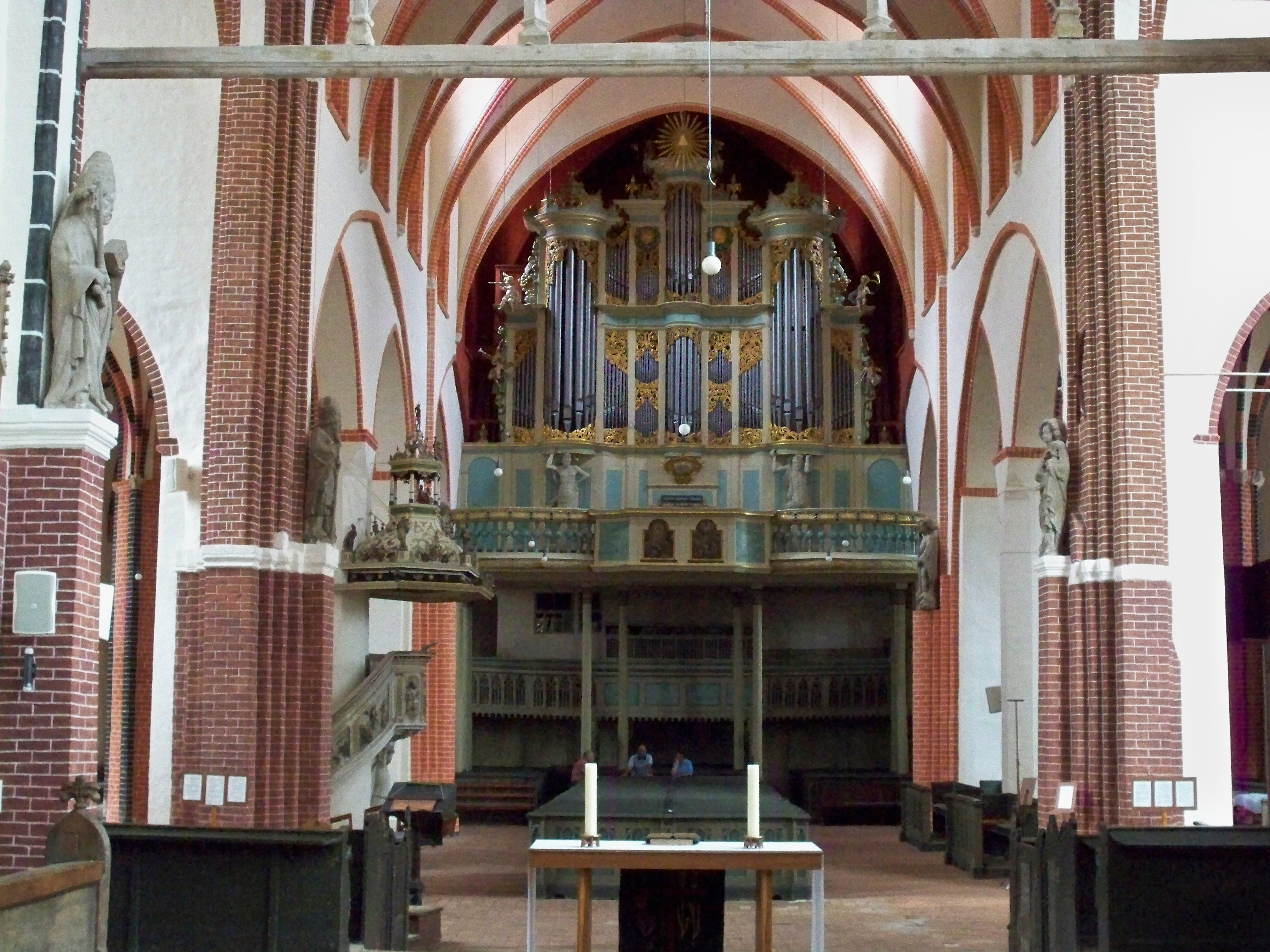 Marienkirche in Salzwedel, interior with organ